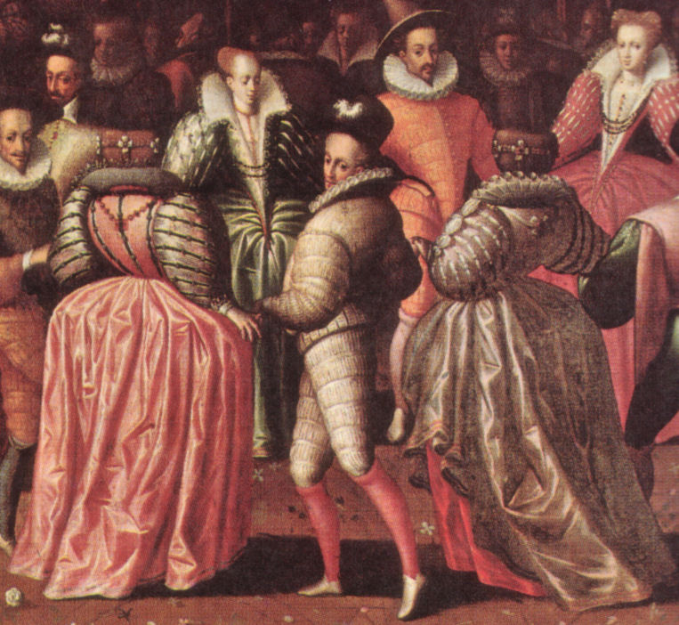 Ball at the Court of Henry III of France.